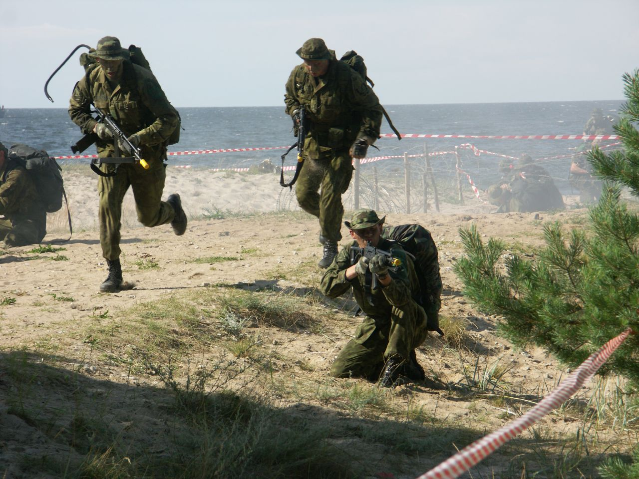 Competitors of military exercise Erna Raid (Erna retk) in Estonia, 2005.